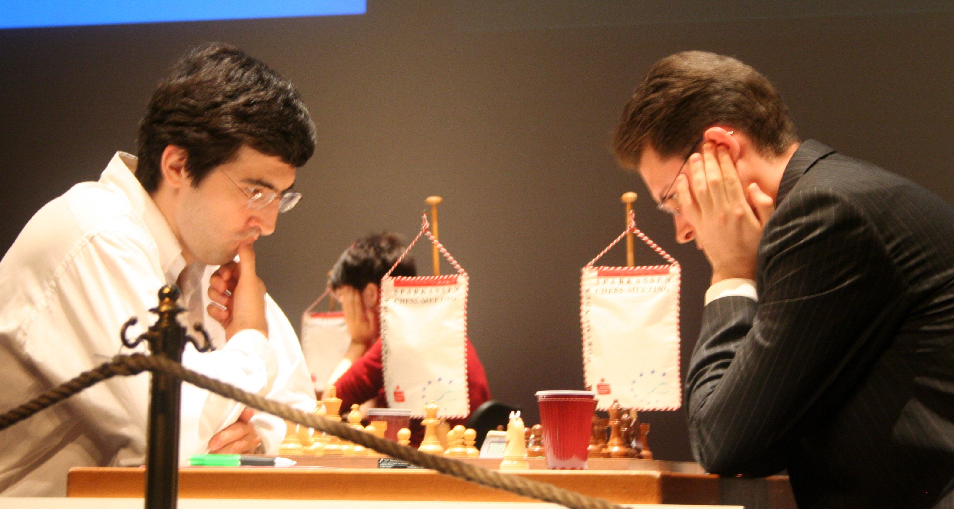 Kramnik — Leko – Dortmund. Sparkassen Chess Meeting 2006